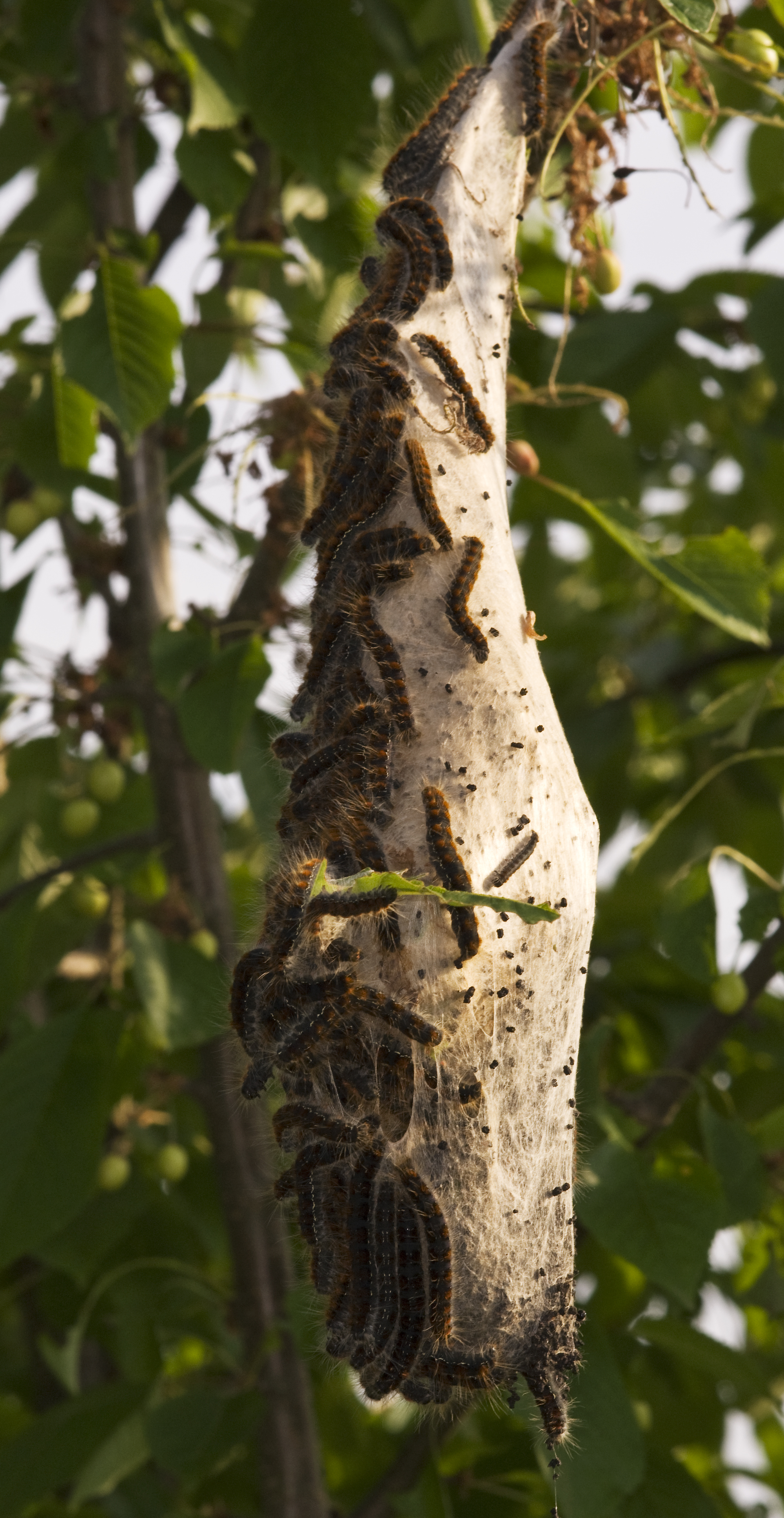 Small Eggar